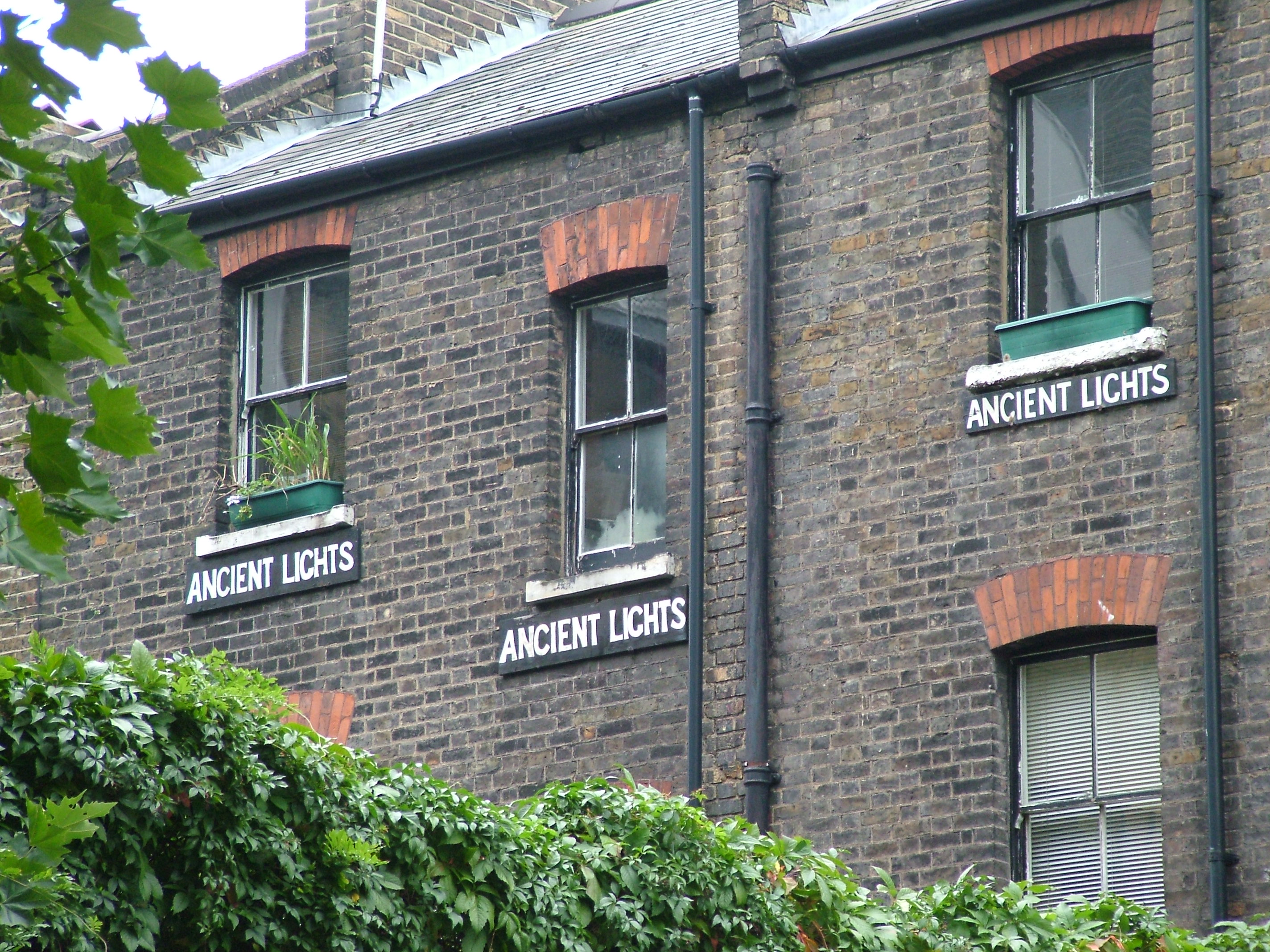 'Ancient Lights' signs below windows in Clerkenwell, London. Taken from the Grand Priory Church of the Order of St John, St. John's Square, on 16th September 2006 by Mike Newman.